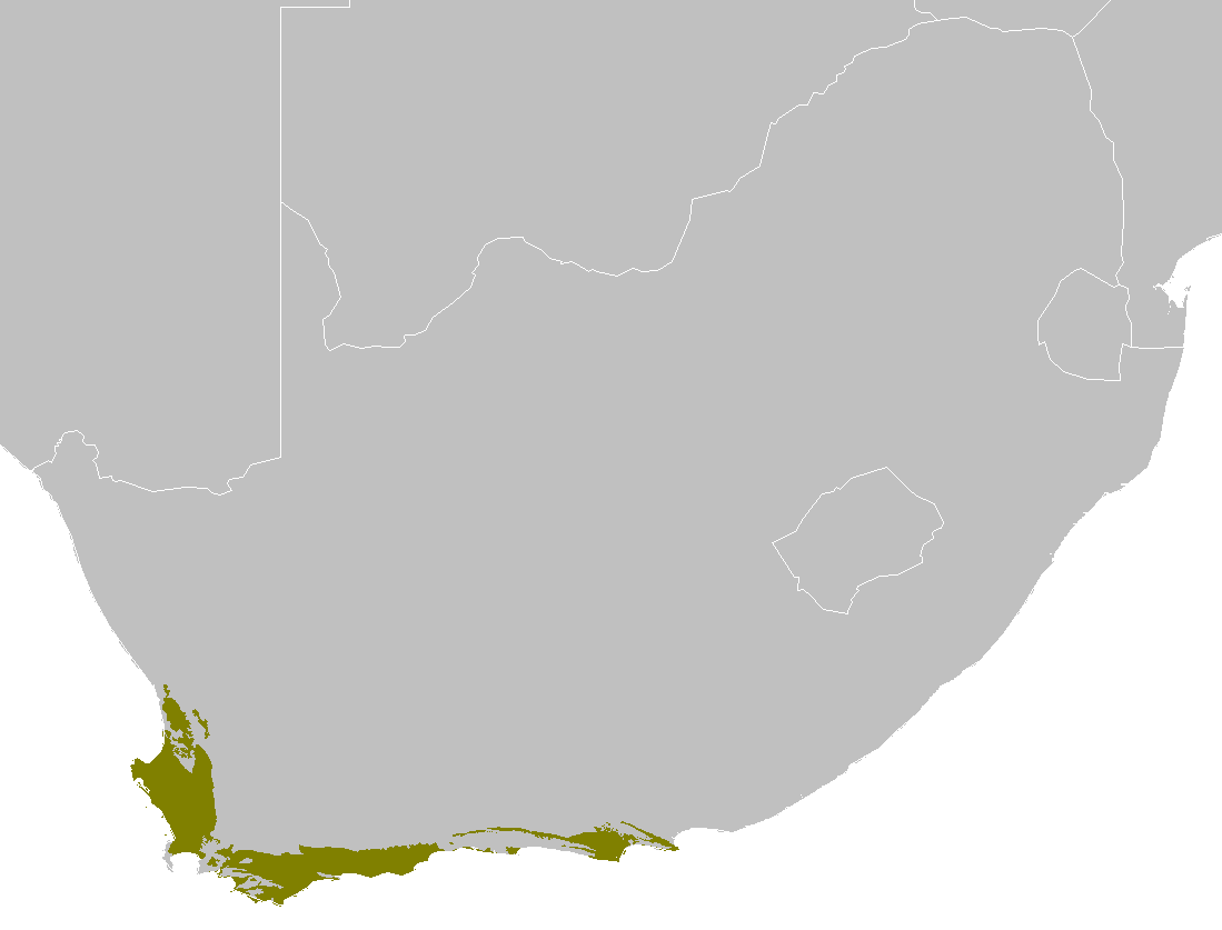 The Lowland fynbos and renosterveld ecoregion